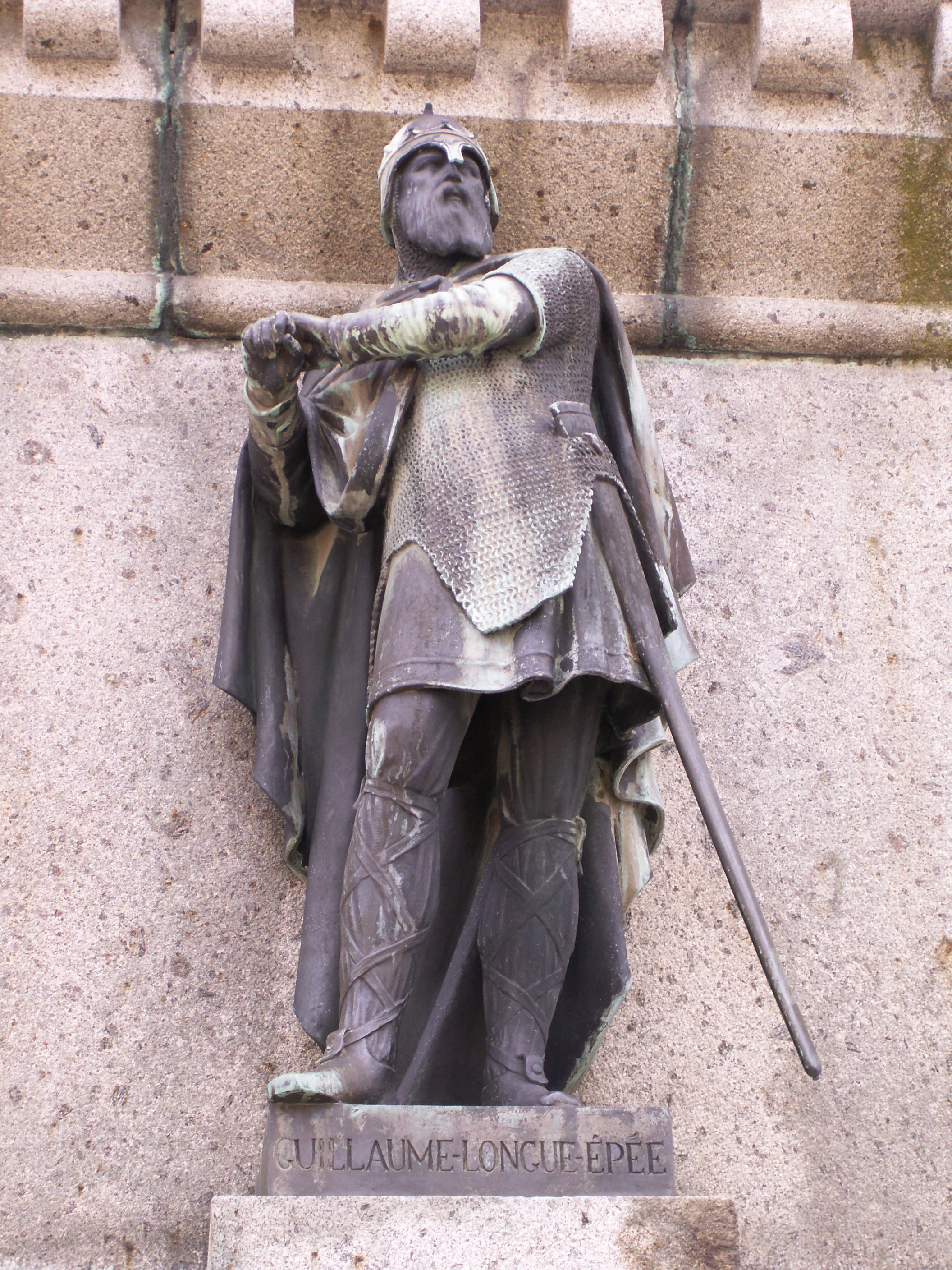 Photo of William Longsword as part of the Six Dukes of Normandy statue in the Falaise town square.